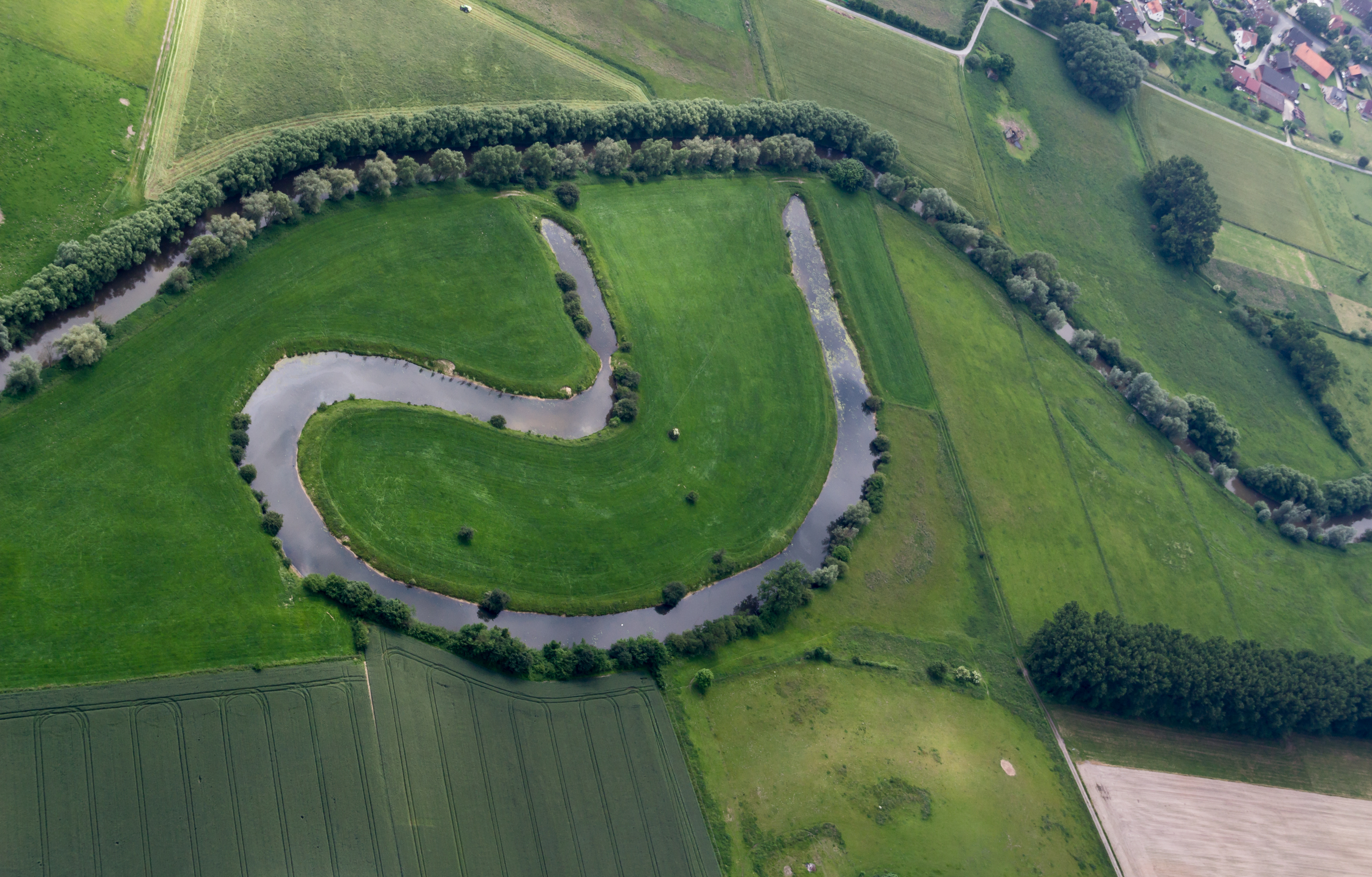 River Lippe near Lippborg, Lippetal, North Rhine-Westphalia, Germany